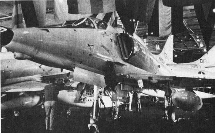 U.S. Navy Douglas A-4E Skyhawk (BuNo 150134, 151094) in the hangar bay of the aircraft carrier USS Franklin D. Roosevelt (CVA-42) in October 1973. 36 Skyhawks were delivered to Israel from U.S. stocks during the Yom Kippur War to replace losses. Staging from Lajes, the aircaft were refueled by U.S. Air Force Boeing KC-135A tankers from Pease Air Force Base, New Hampshire (USA), and U.S. Navy tankers from the USS John F. Kennedy (CVA-67) west of the Strait of Gibraltar. They then flew on to the Franklin D. Roosevelt southeast of Sicily where they stayed overnight, then continued on to Israel refueling once more from tankers launched from the USS Independence (CVA-62) south of Crete.